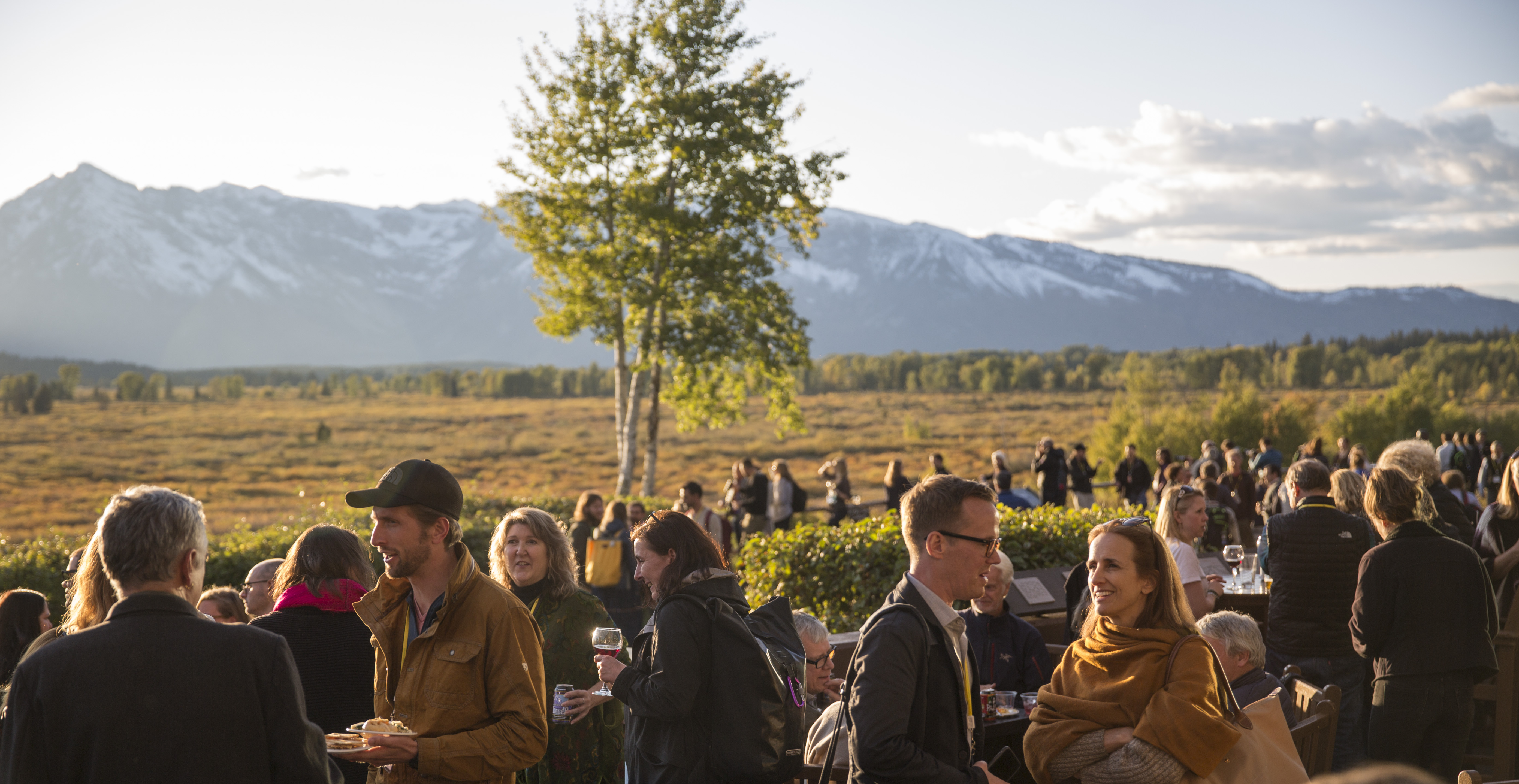 Photo taken at the 2017 Jackson Hole Wildlife Film Festival.